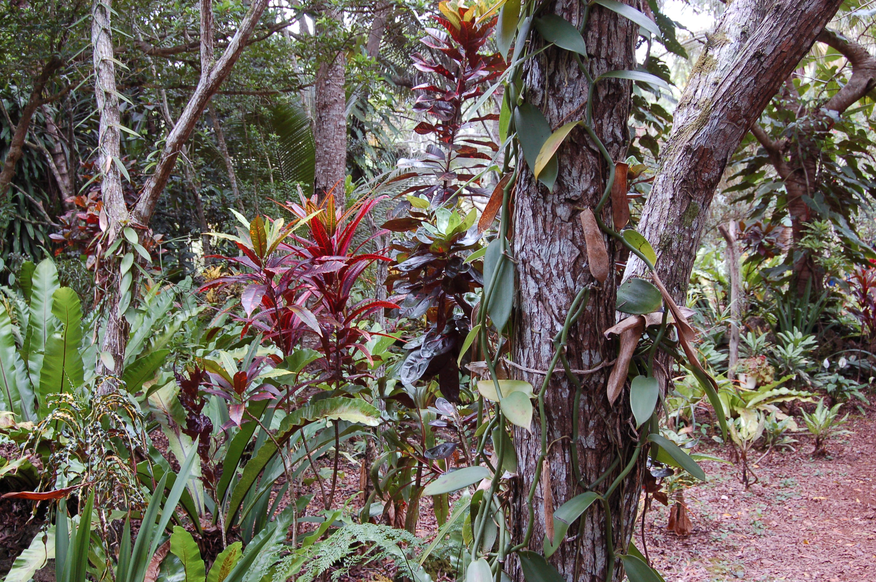 View of plants growing at a vanilla plantation near Mucaweng, Lifou, New Caledonia. The object location for this file is approximate only.